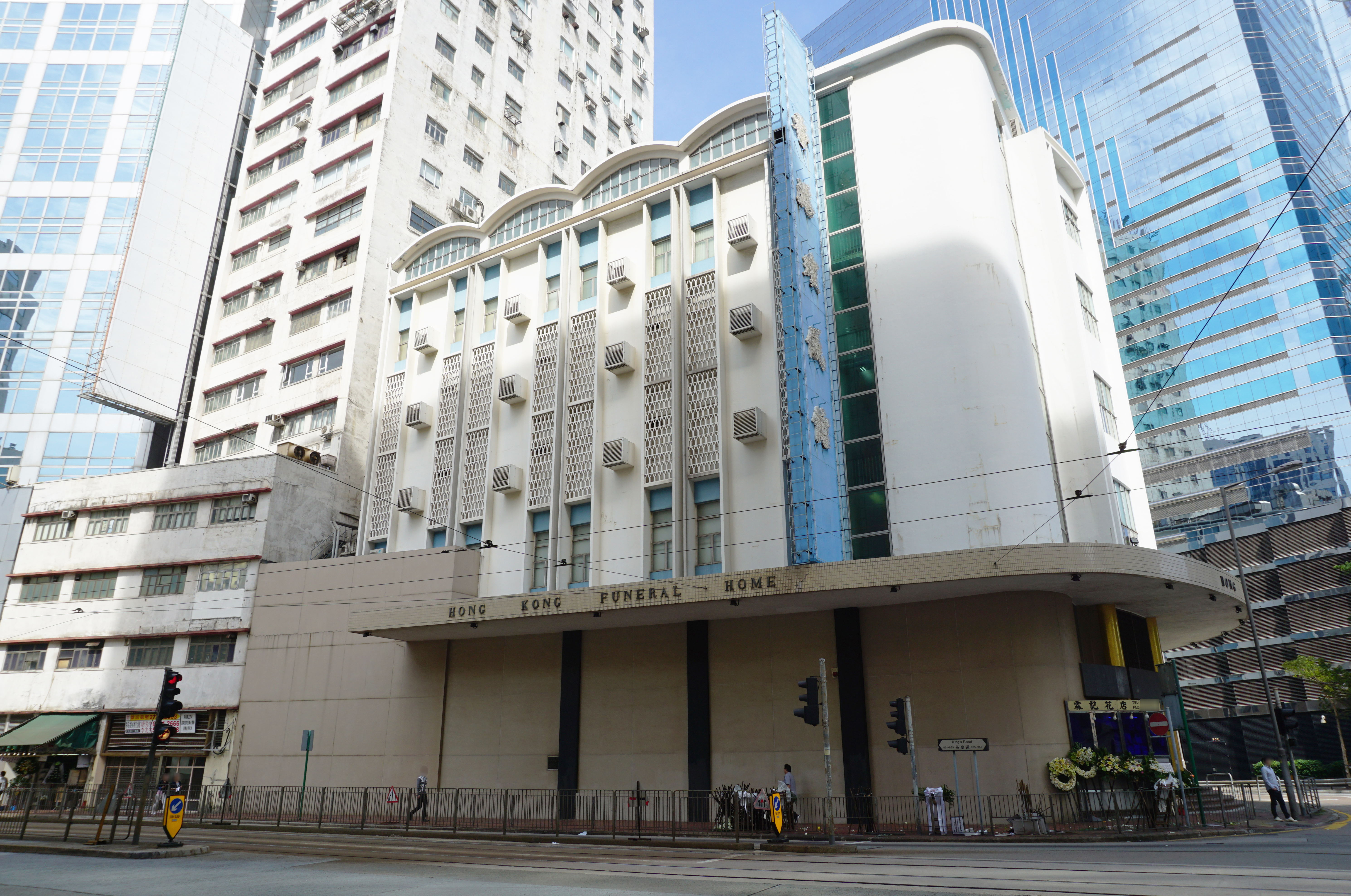 Hong Kong Funeral Home in Quarry Bay, Hong Kong.